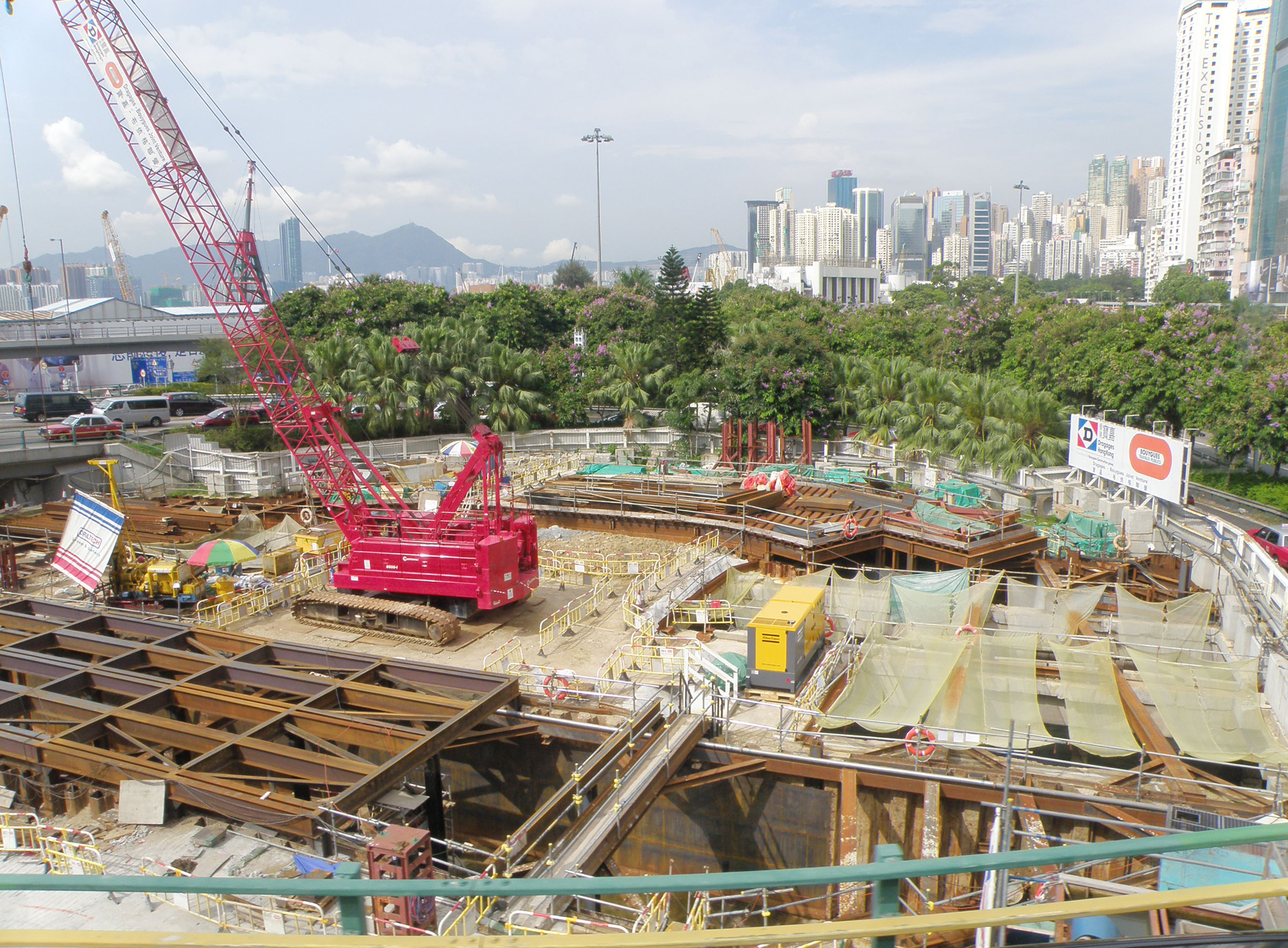 Shatin to Central Link in Causeway Bay, Hong Kong.